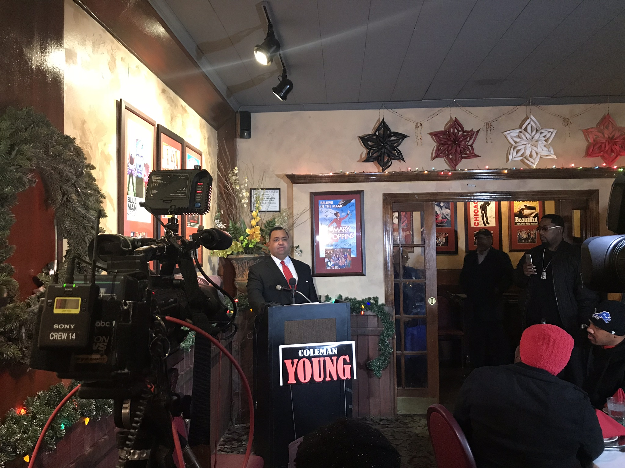 Senator Coleman Young II (D-Detroit) announces his run for the 13th Congressional District at Mario's.